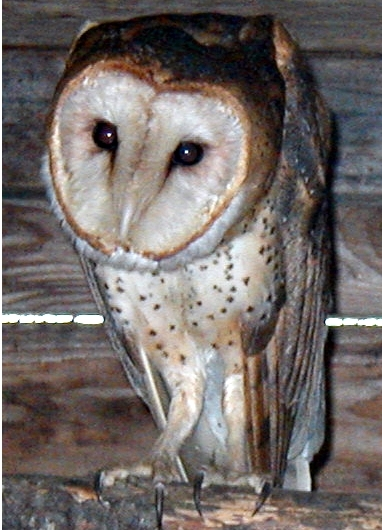 A barn owl in captivity.